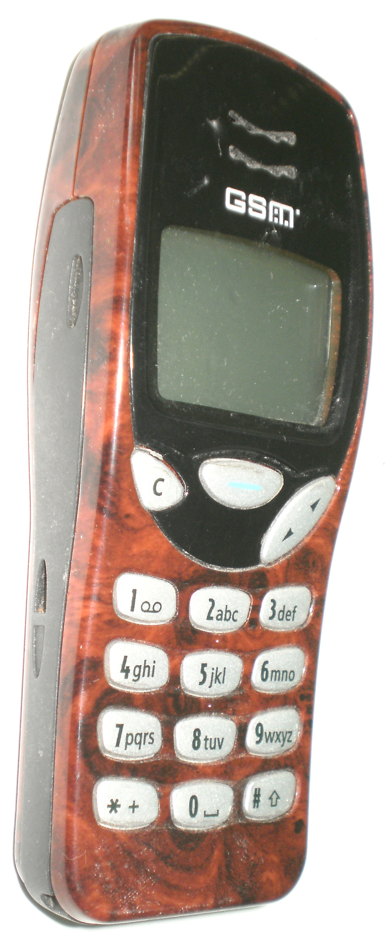 Nokia 3210 in an unofficial replacement case. (Note lack of a "Nokia" logo).